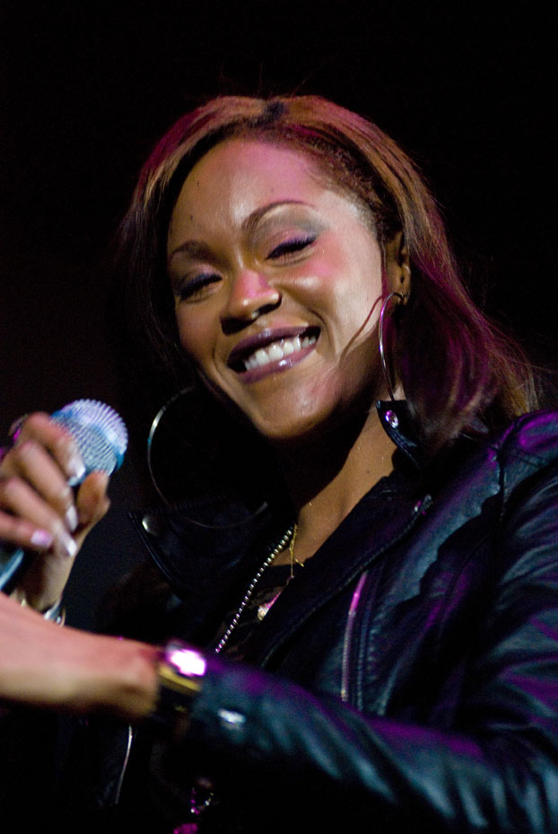 Shontelle performs at B96 Jingle Bash at the Allstate Arena outside Chicago